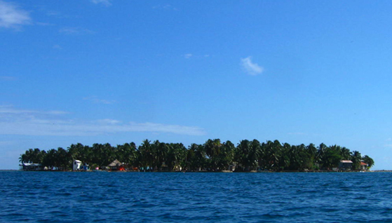 Tobacco Caye, Belize, Tobacco Caye.